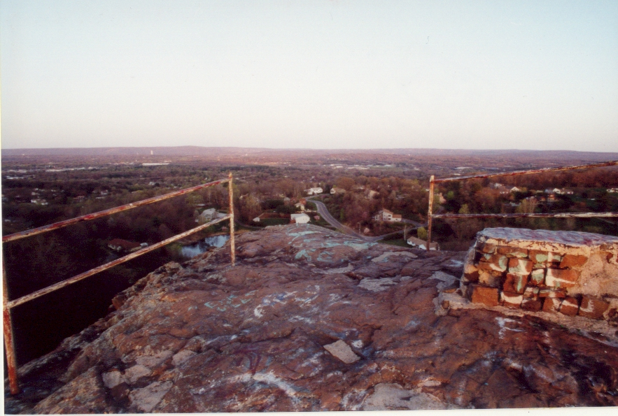 View from Pinnacle Rock & former Nike missile base lookout. by Paul Gagnon , 2003